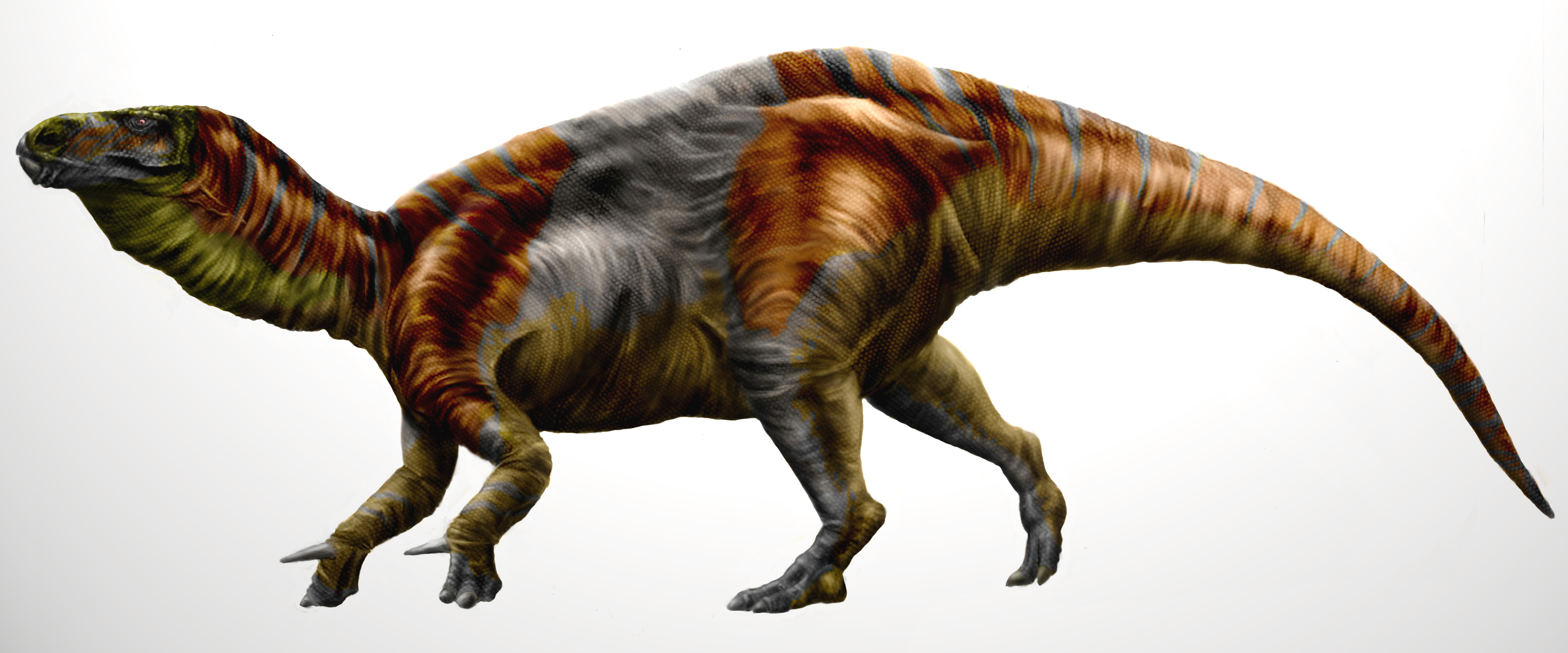 Illustration of the iberian iguanodontian Delapparentia turolensis.